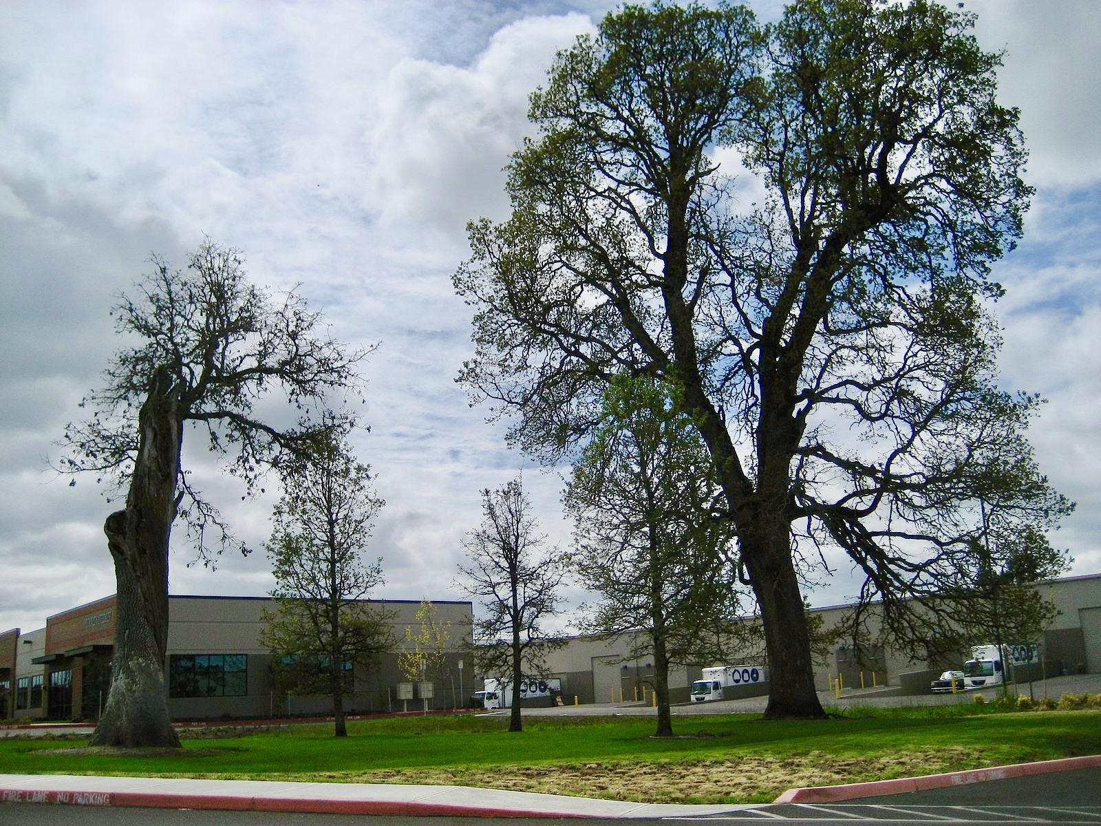 The famed five oaks that give the name to West Union, Oregon.